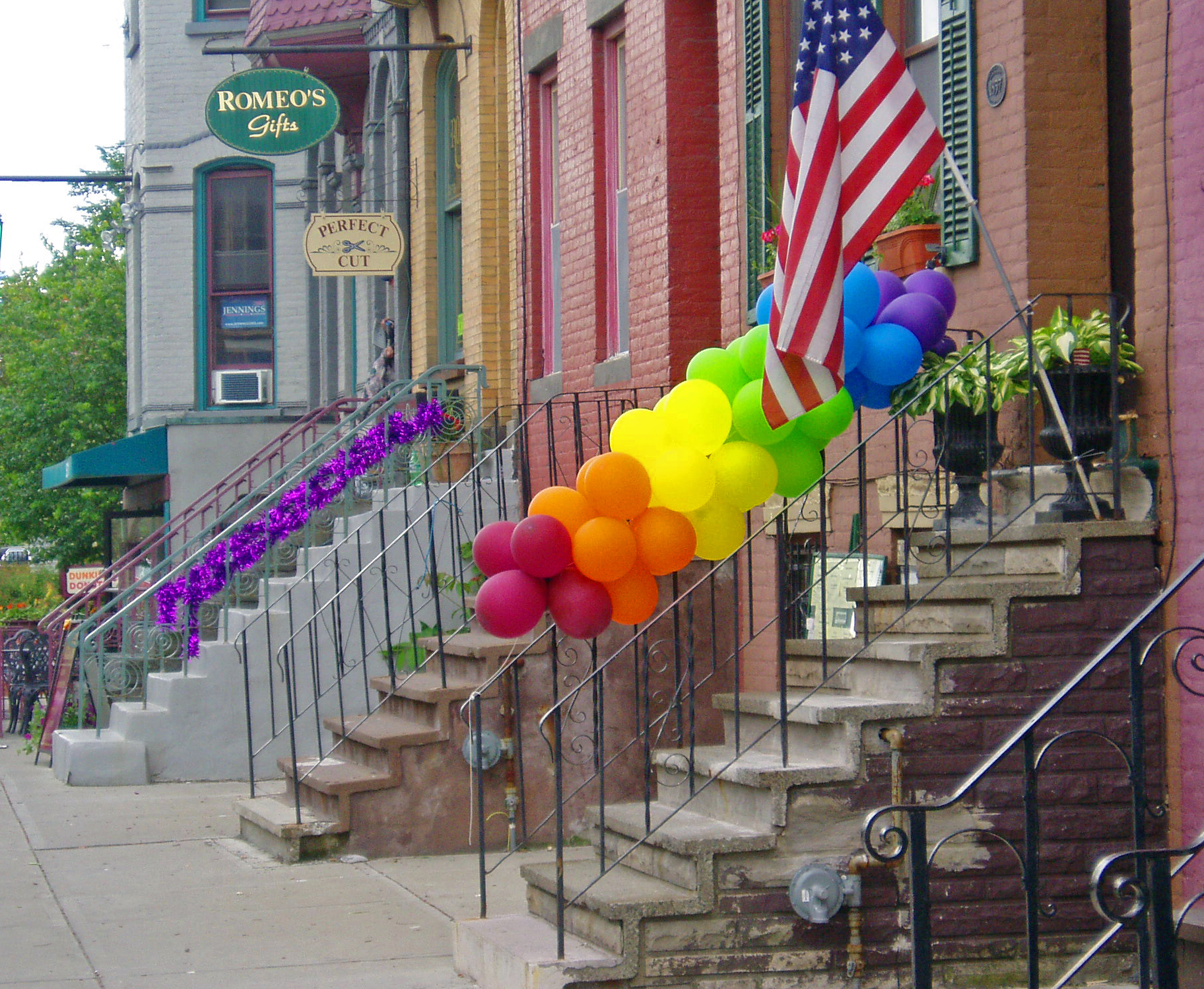 Pretty balloons on Lark Street.